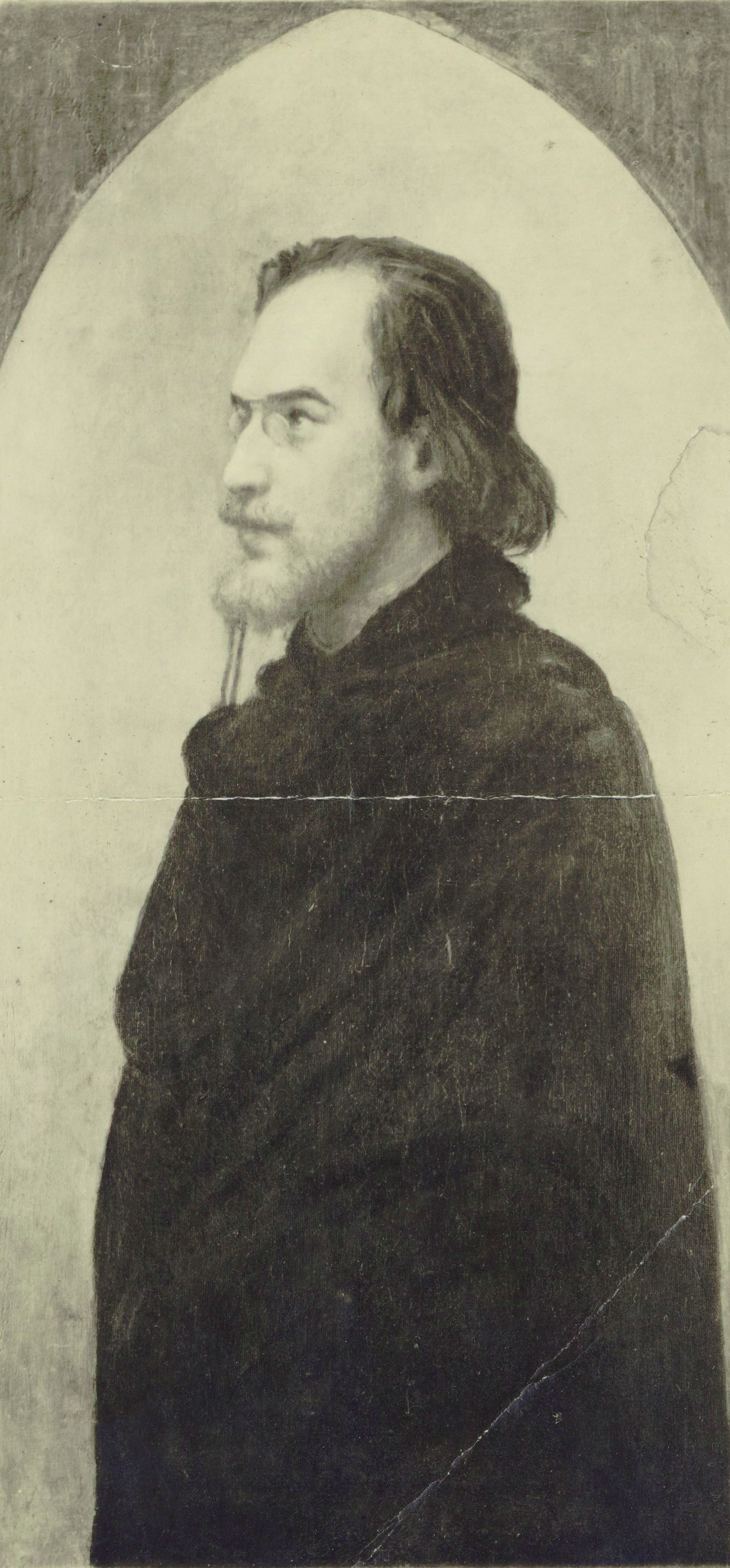 Erik Satie (1866-1925)